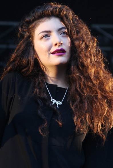 Lorde at the 2014 Sydney Laneway Festival